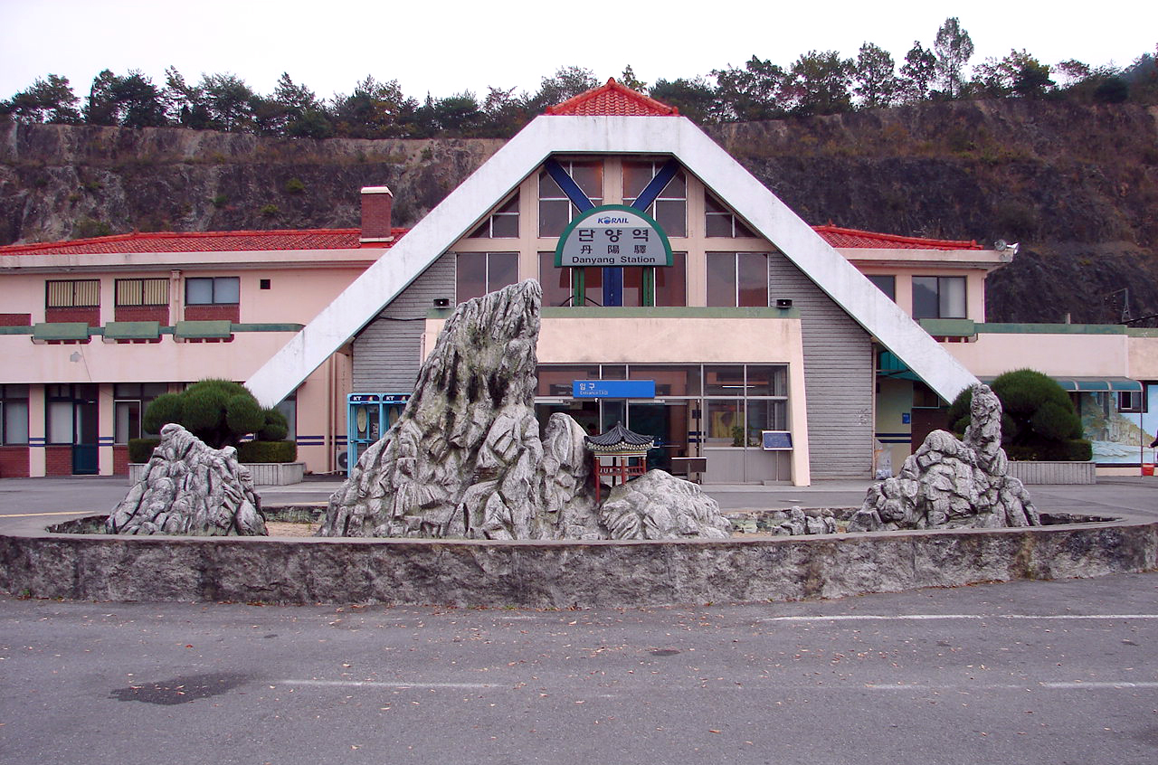 Danyang's Korail trainstation - street side